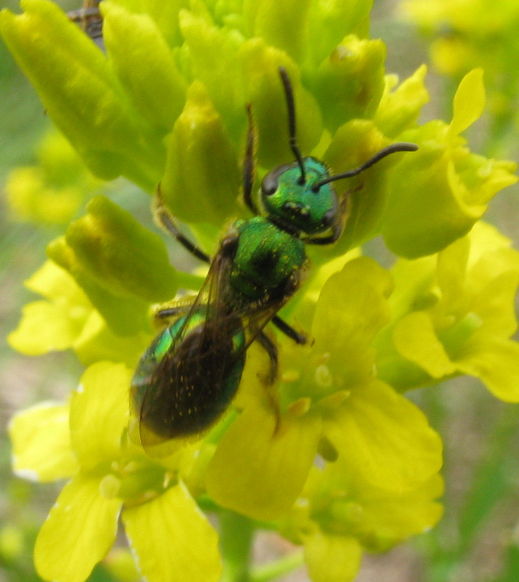 Female Augochlorella aurata (sweat bee in the Halictidae family). Photo taken in Concord, NH.